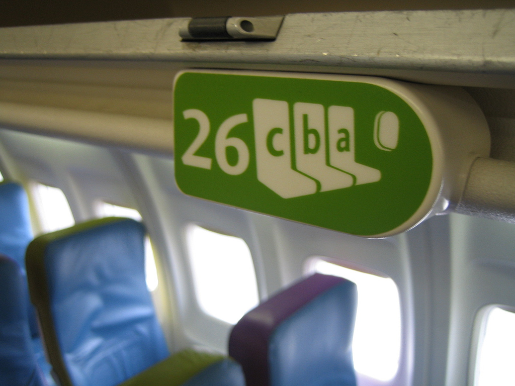 A seat graphic on a Song airplane.